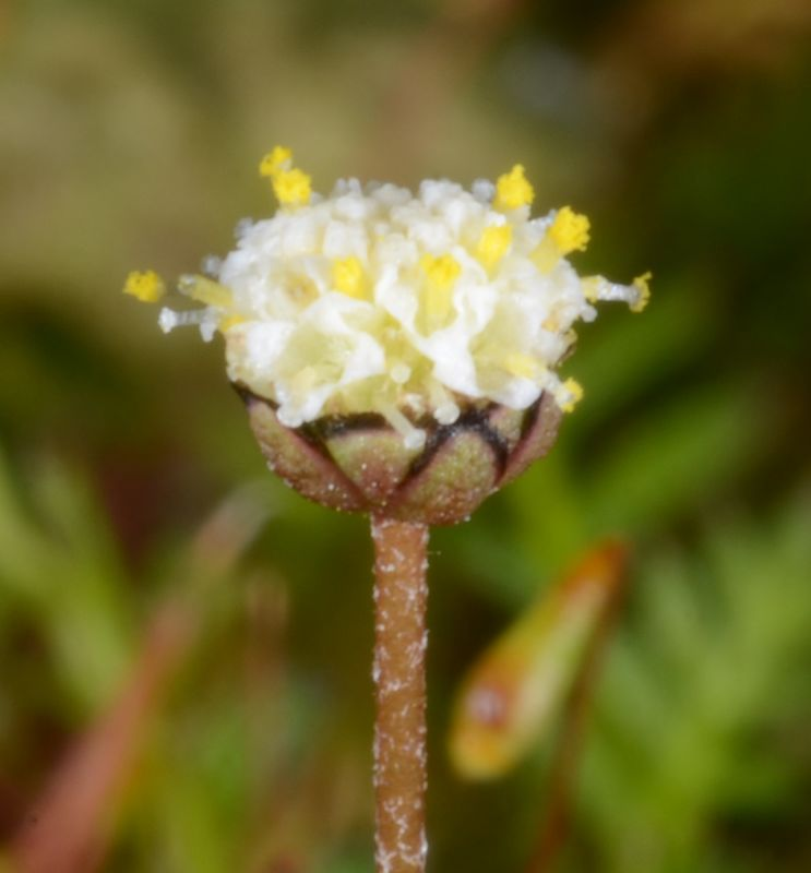 Flower of Leptinella filiformis